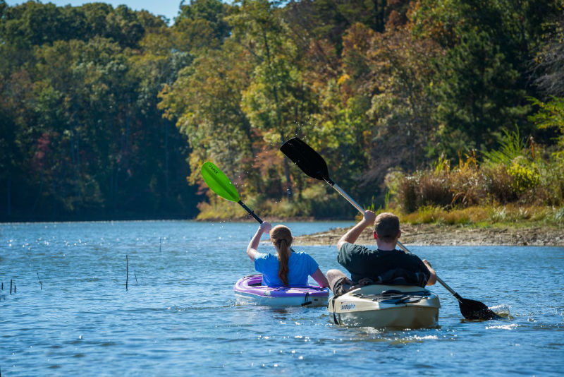 Kayakers at Hickory Log Creek Reservoir, Canton, Ga